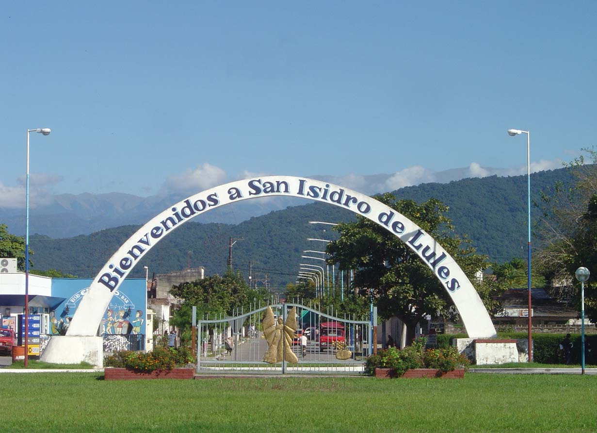 author: jlazarte caption: City of Lules, Tucumán Province, Argentina